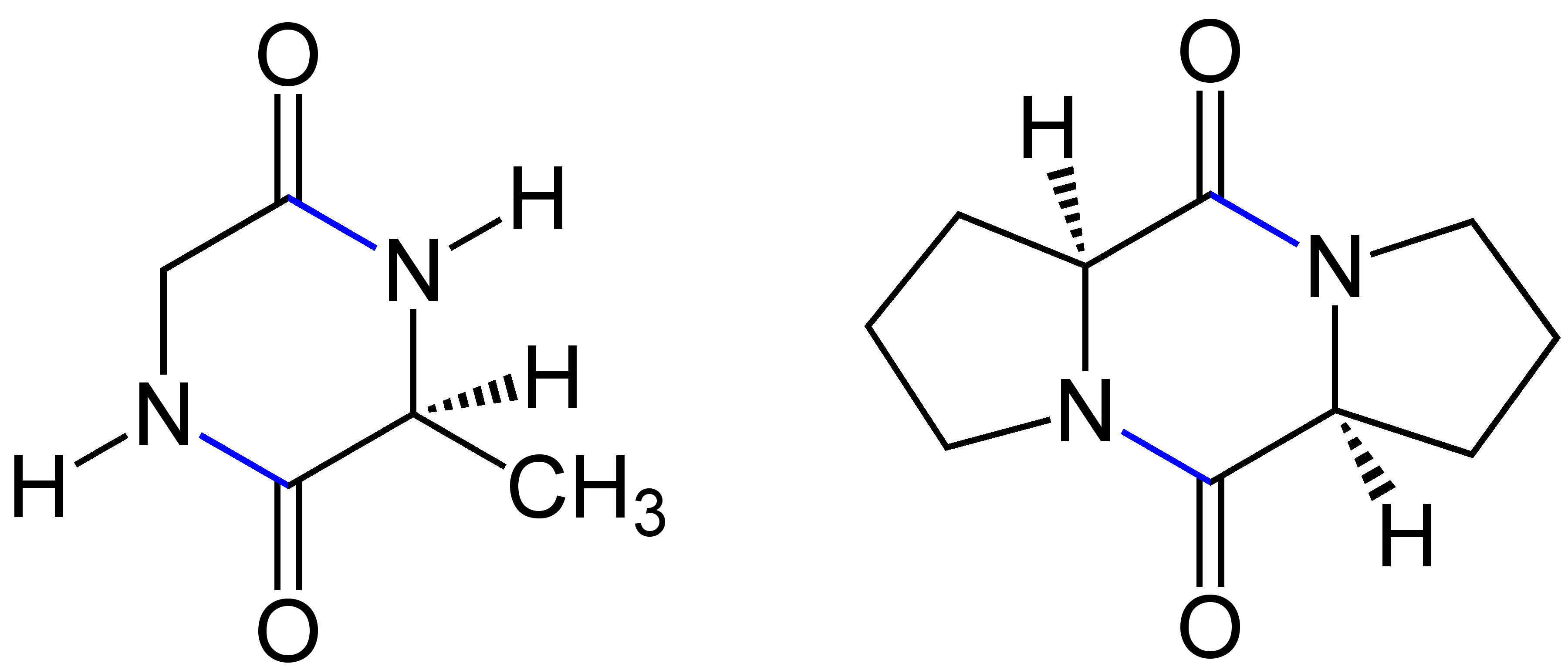 Diketopiperazine_Structural_Formulae